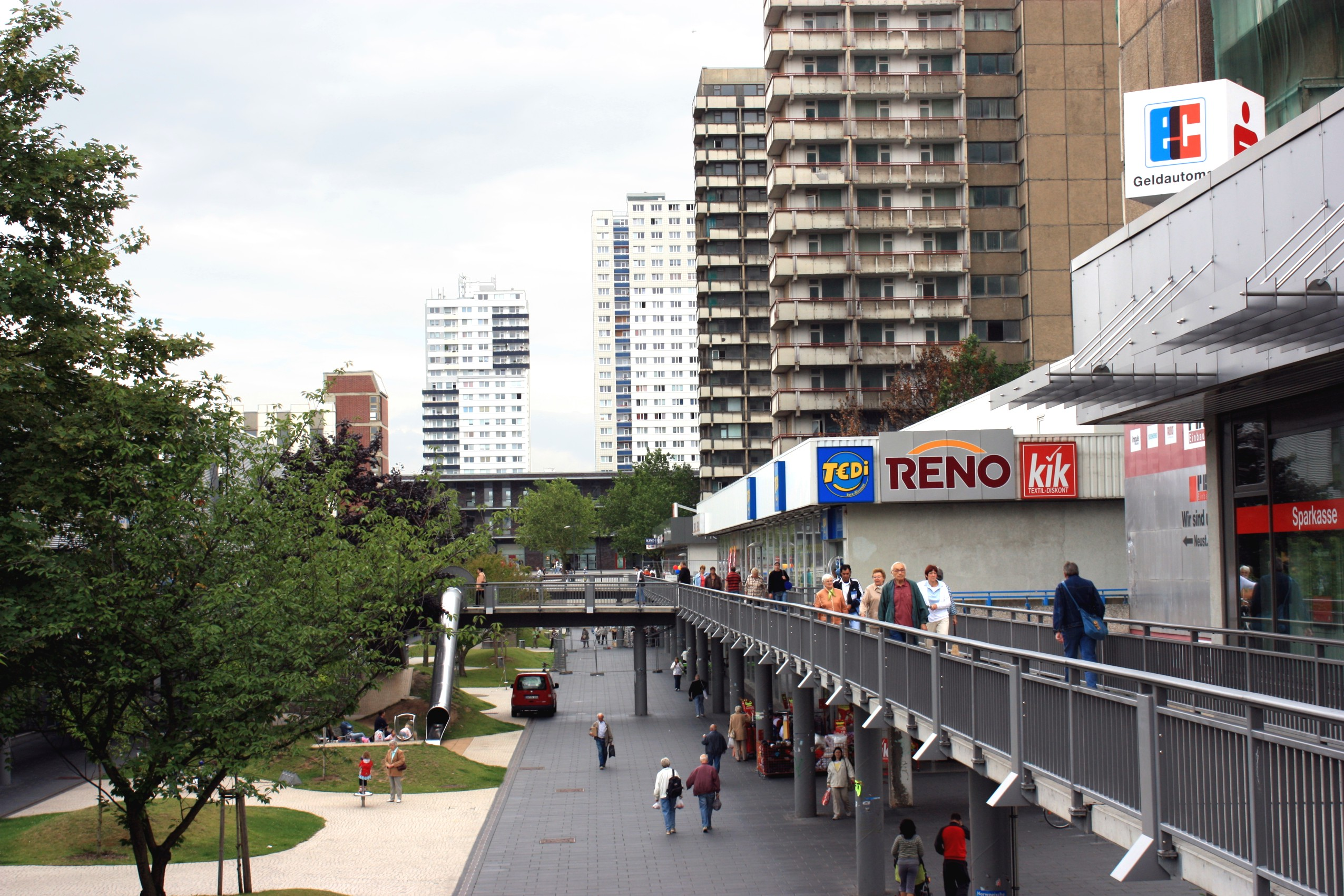 In the downtown of Halle-Neustadt